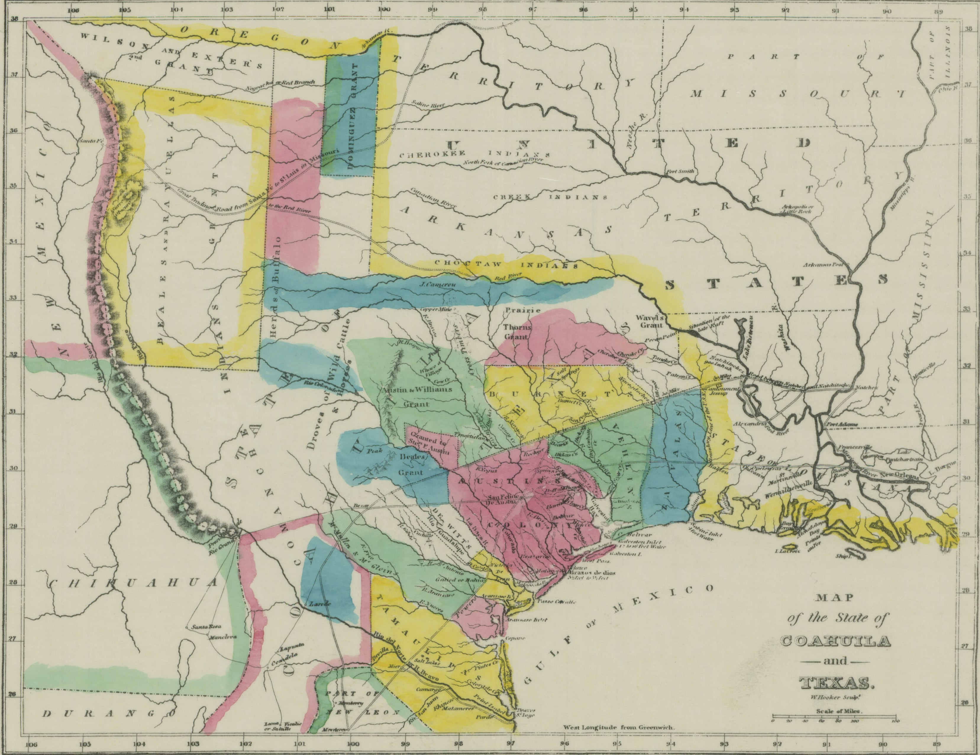 This is a map showing the Mexican province of Coahuila and Texas in 1833.